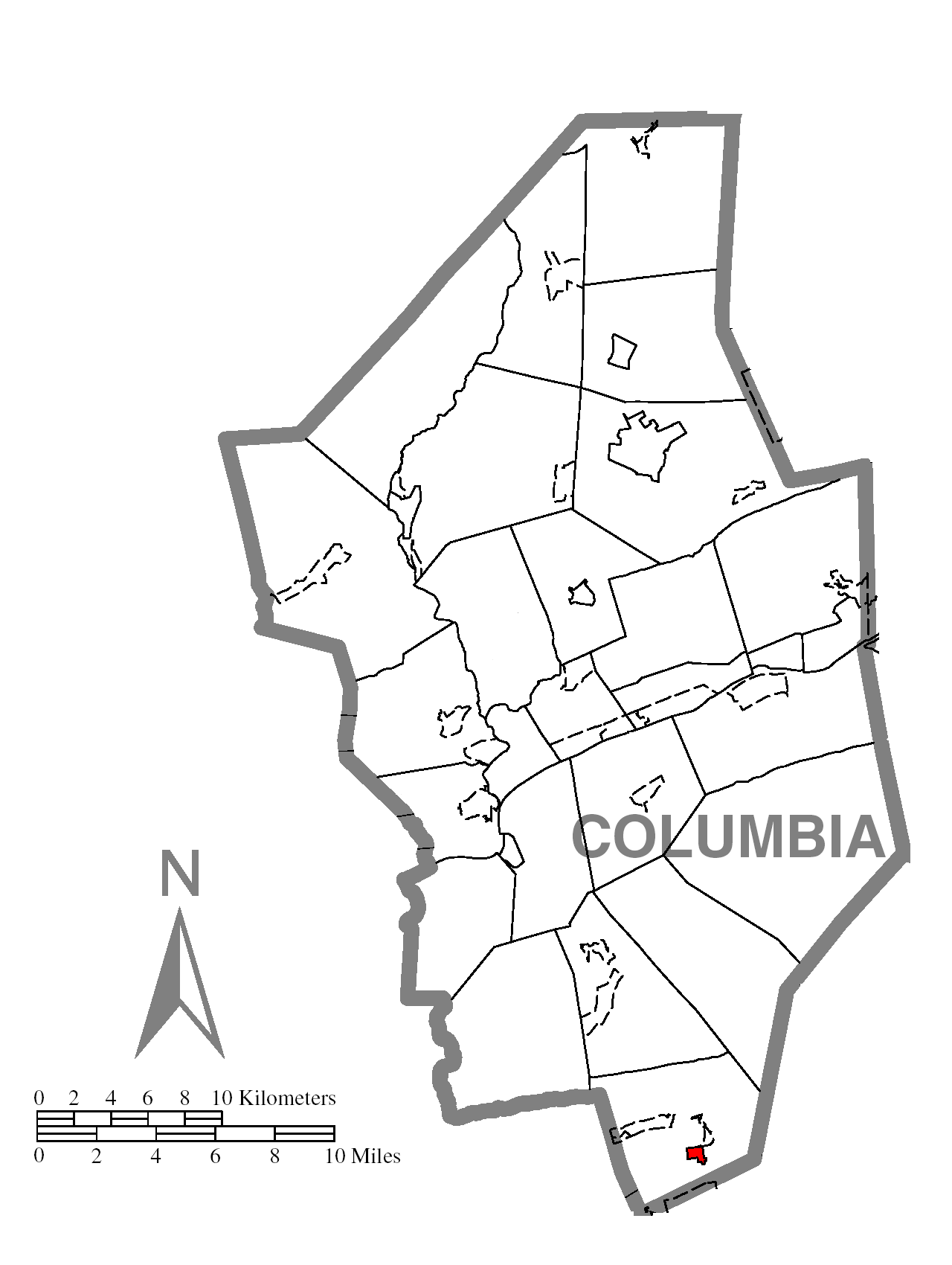 A map of Columbia County showing Centralia, Pennsylvania (alternate) highlighted on the map.